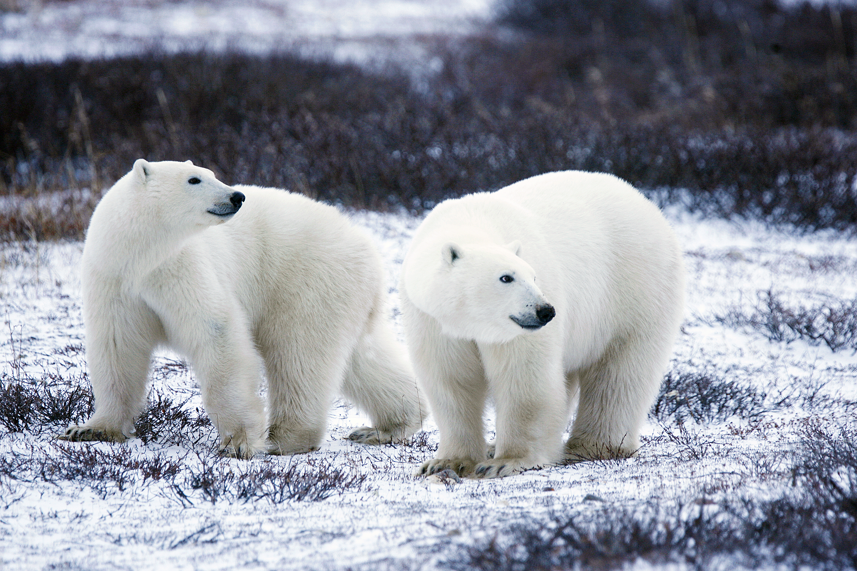 Photo: Gary Kramer/USFWS